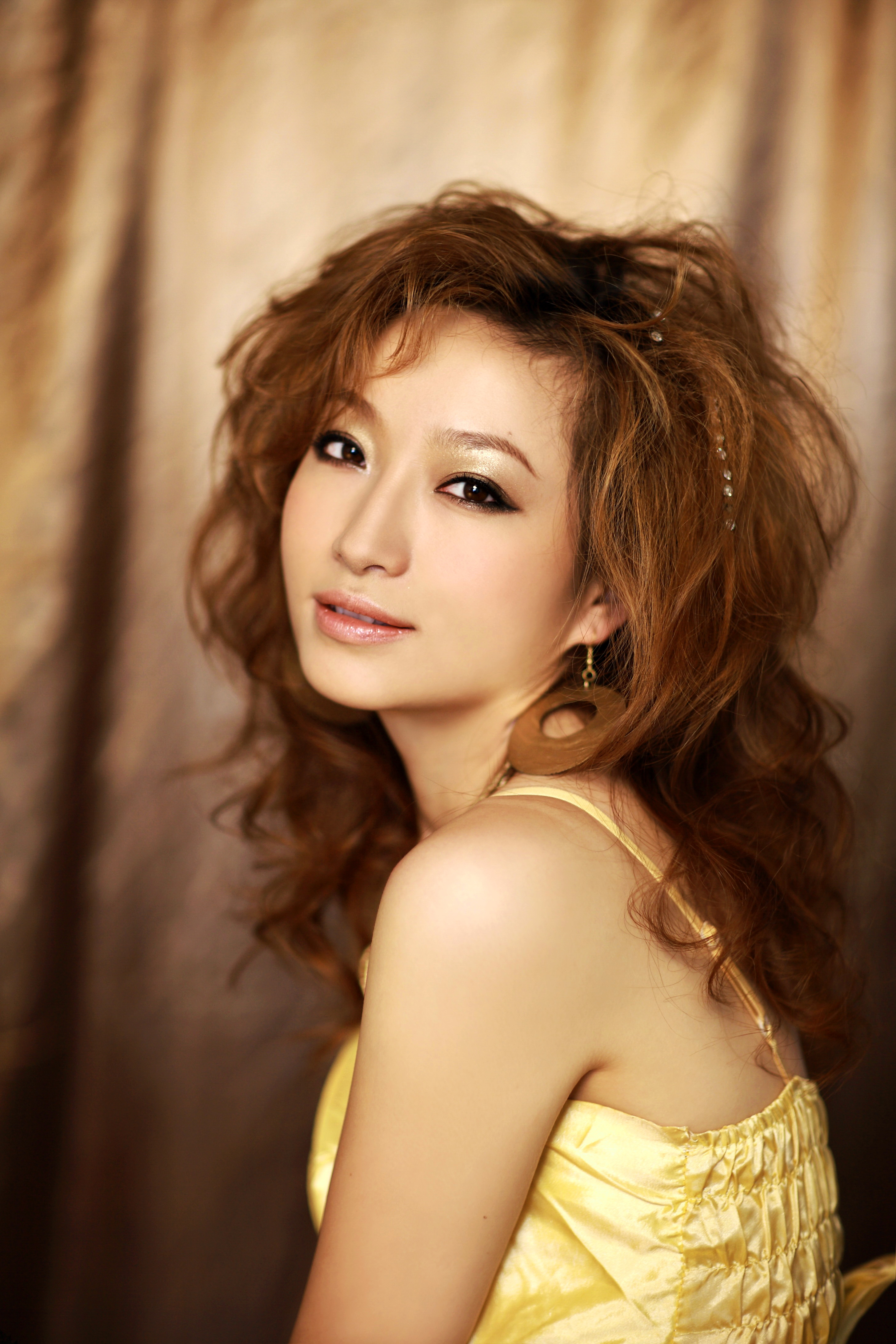 Natalie Ni Shi preparing for a charity concert at Vancouver